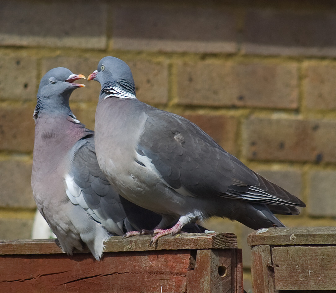 A cock and hen (R to L) Wood Pigeon